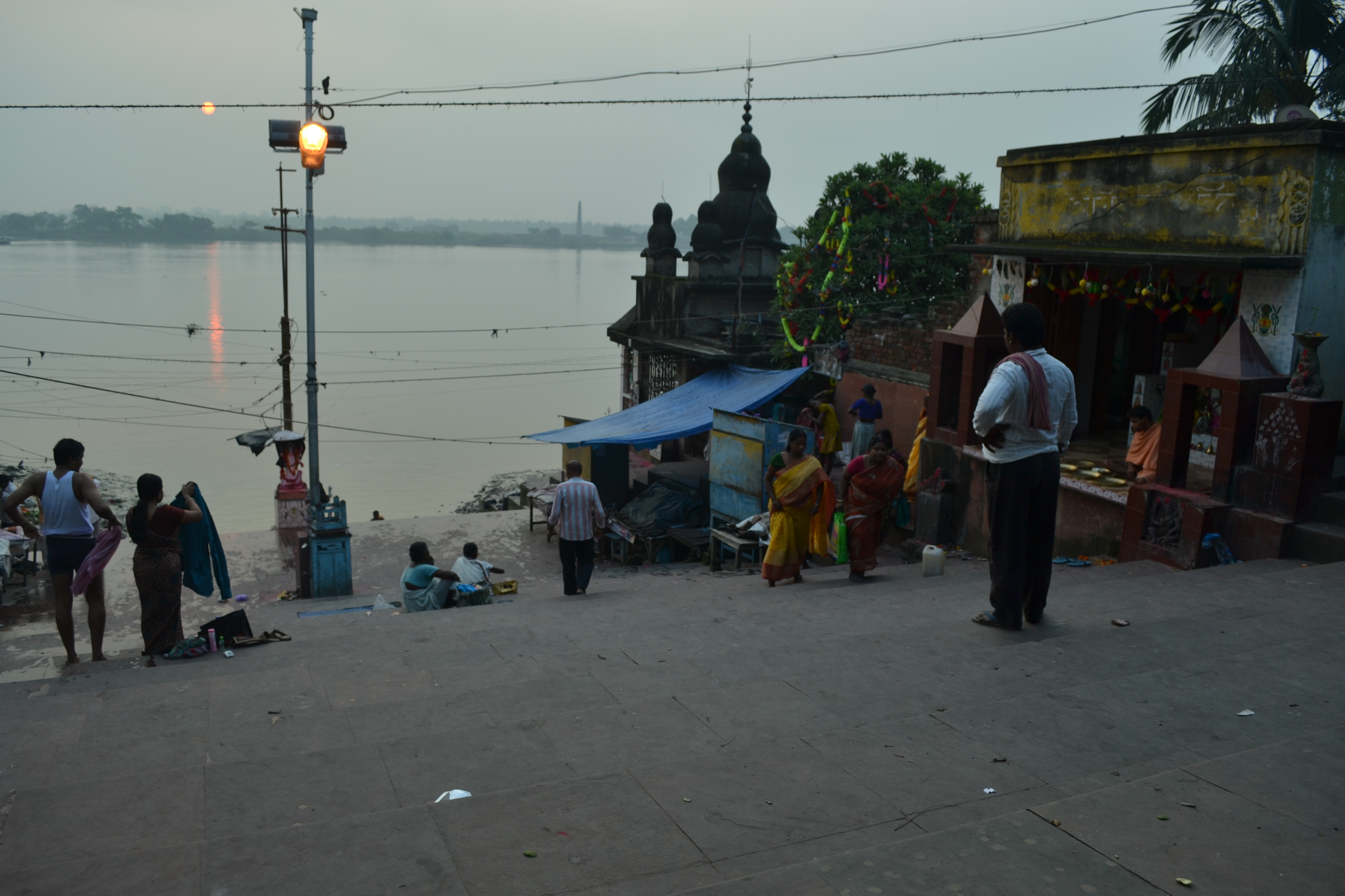 The Bathing Ghat in Tribeni beside the Hindu cremate area. The place is frequented by many people for a holy dip; currently facing issues of river bank deposits